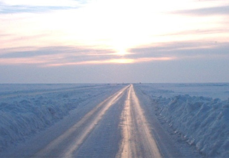 Ice road between Hiiumaa and mainland Estonia in 2003.